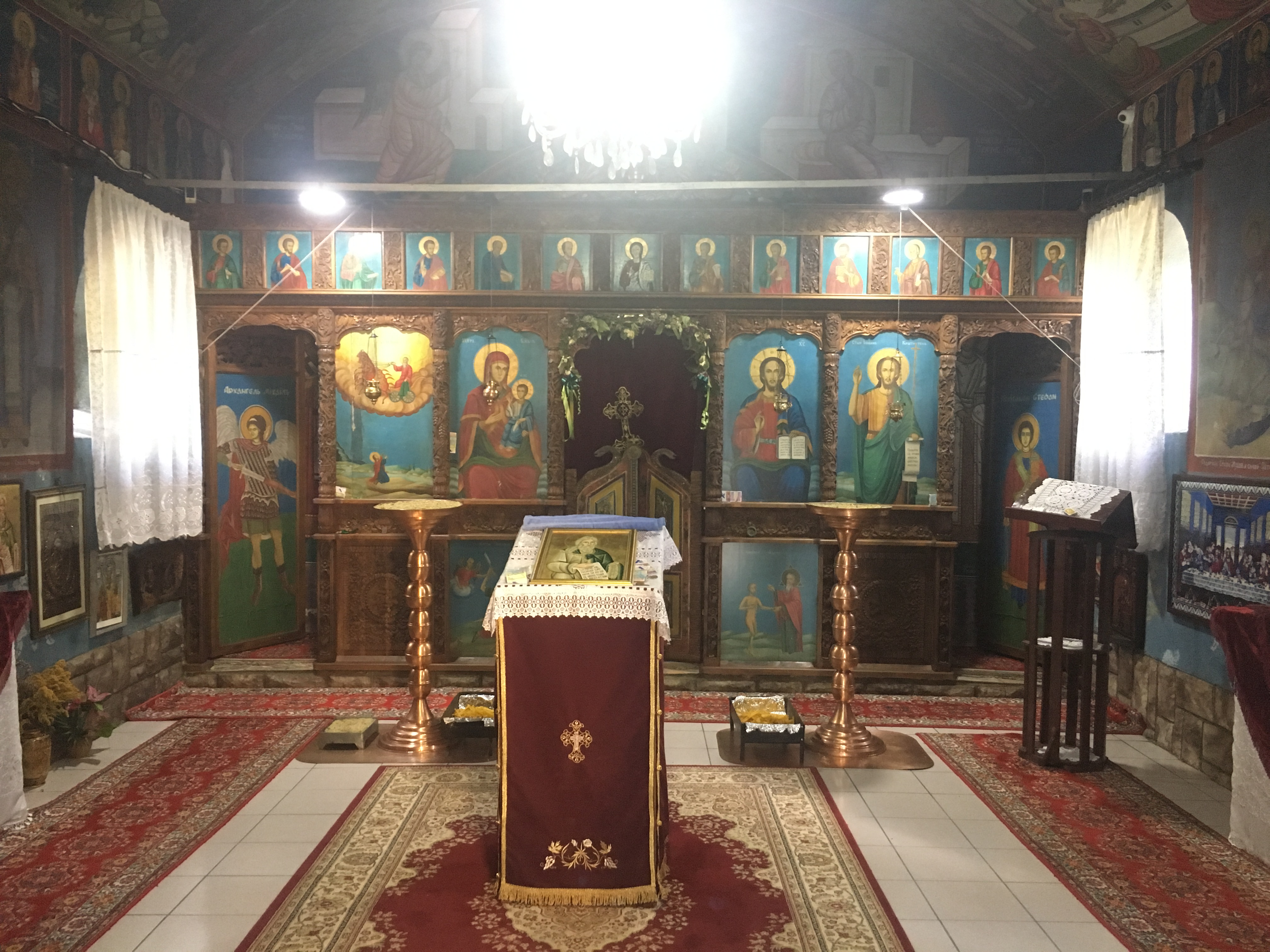 The interior of St. Elijah Church near the village of Velgošti